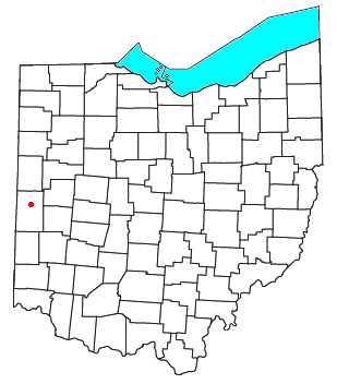 Locator map of the unincorporated community of Dawn in Darke County, Ohio, United States.